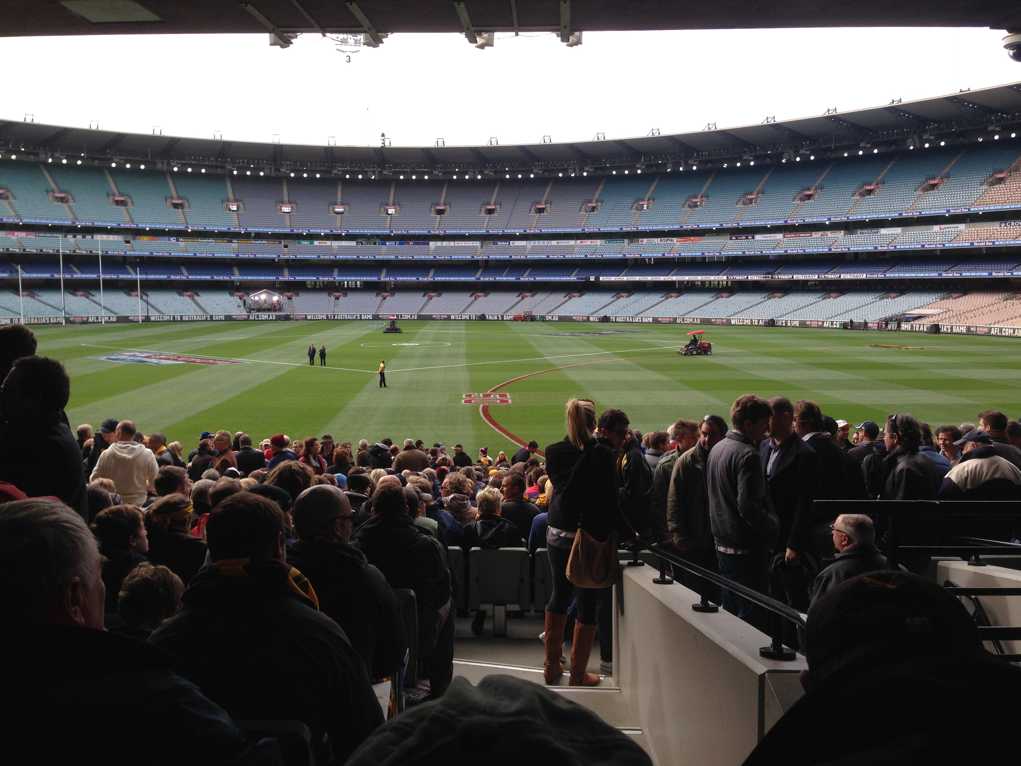 2013 AFL Grand Final. Patrons in the MCC reserve are taking their seats shortly after the gates opened at around 8am.